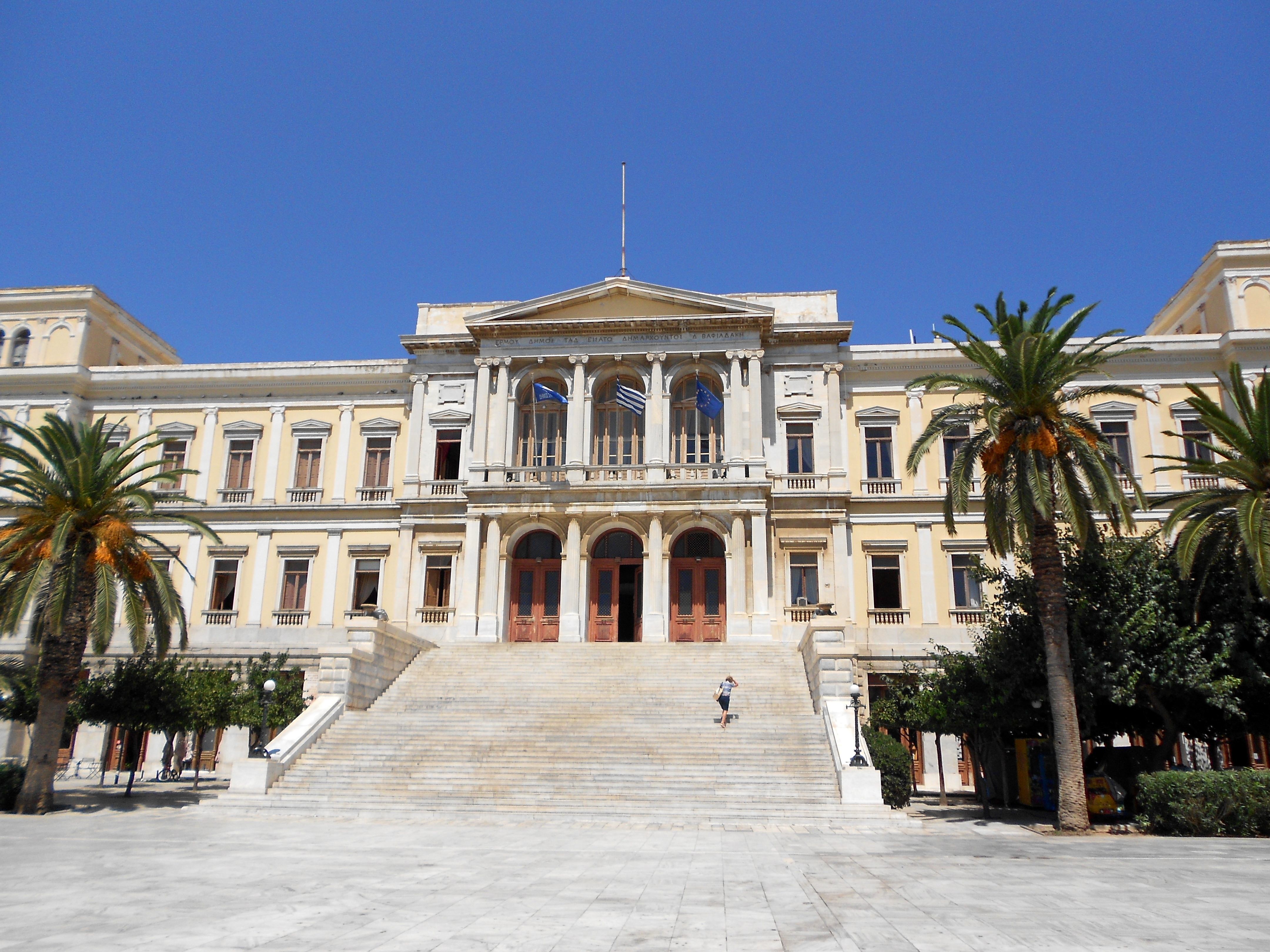 View of the facade of the Ermoupolis City Hall.